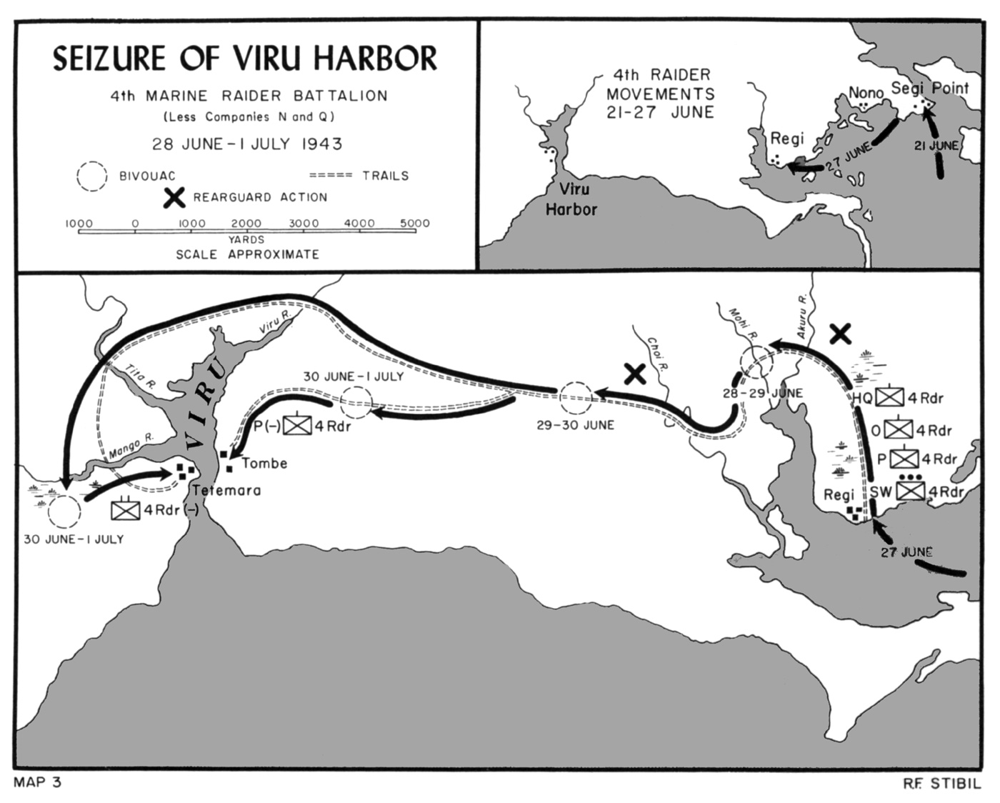 Map of advance on and attack on Viru Harbor, New Georgia, July, 1943.